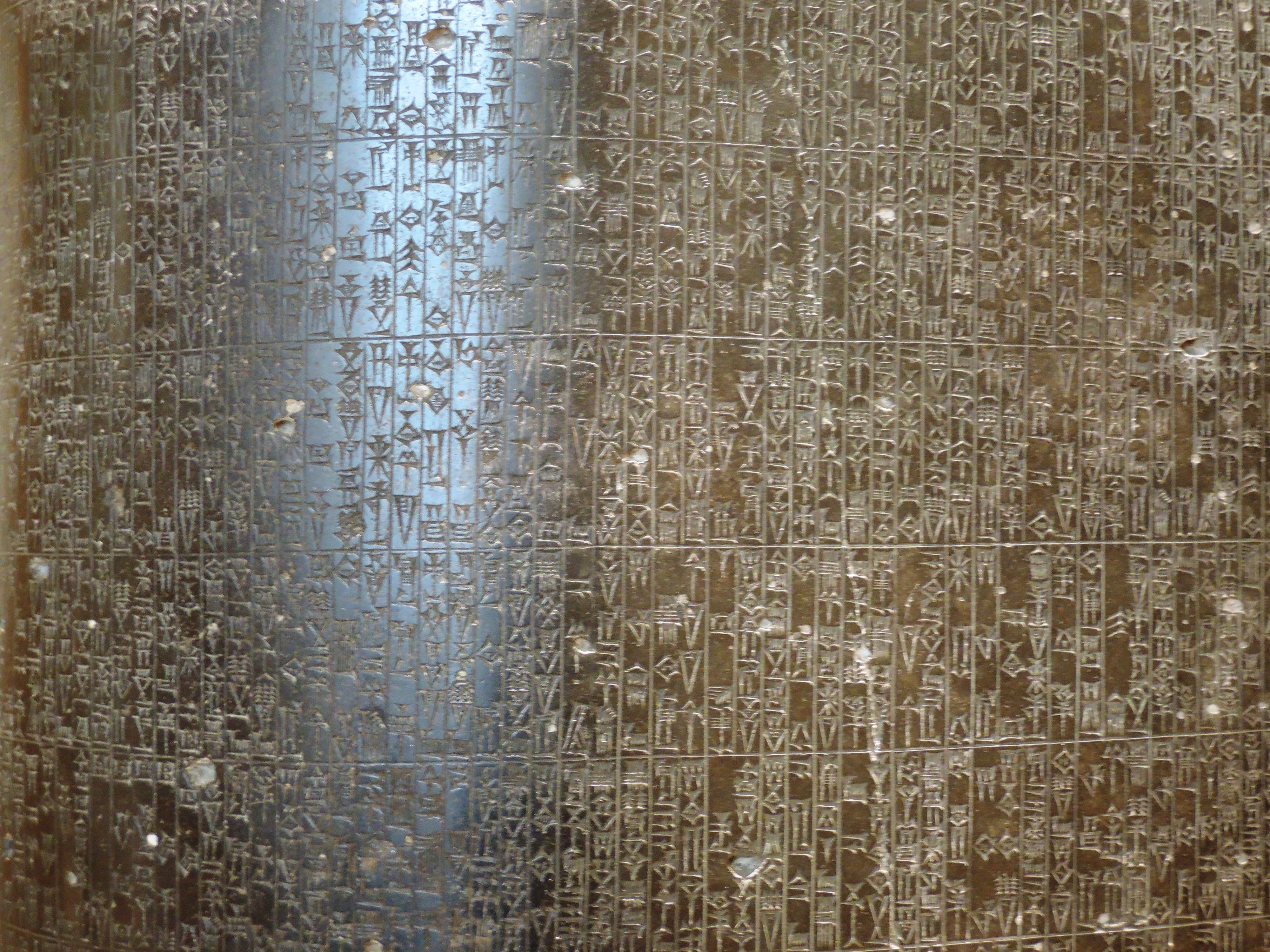 Code of Hammurabi